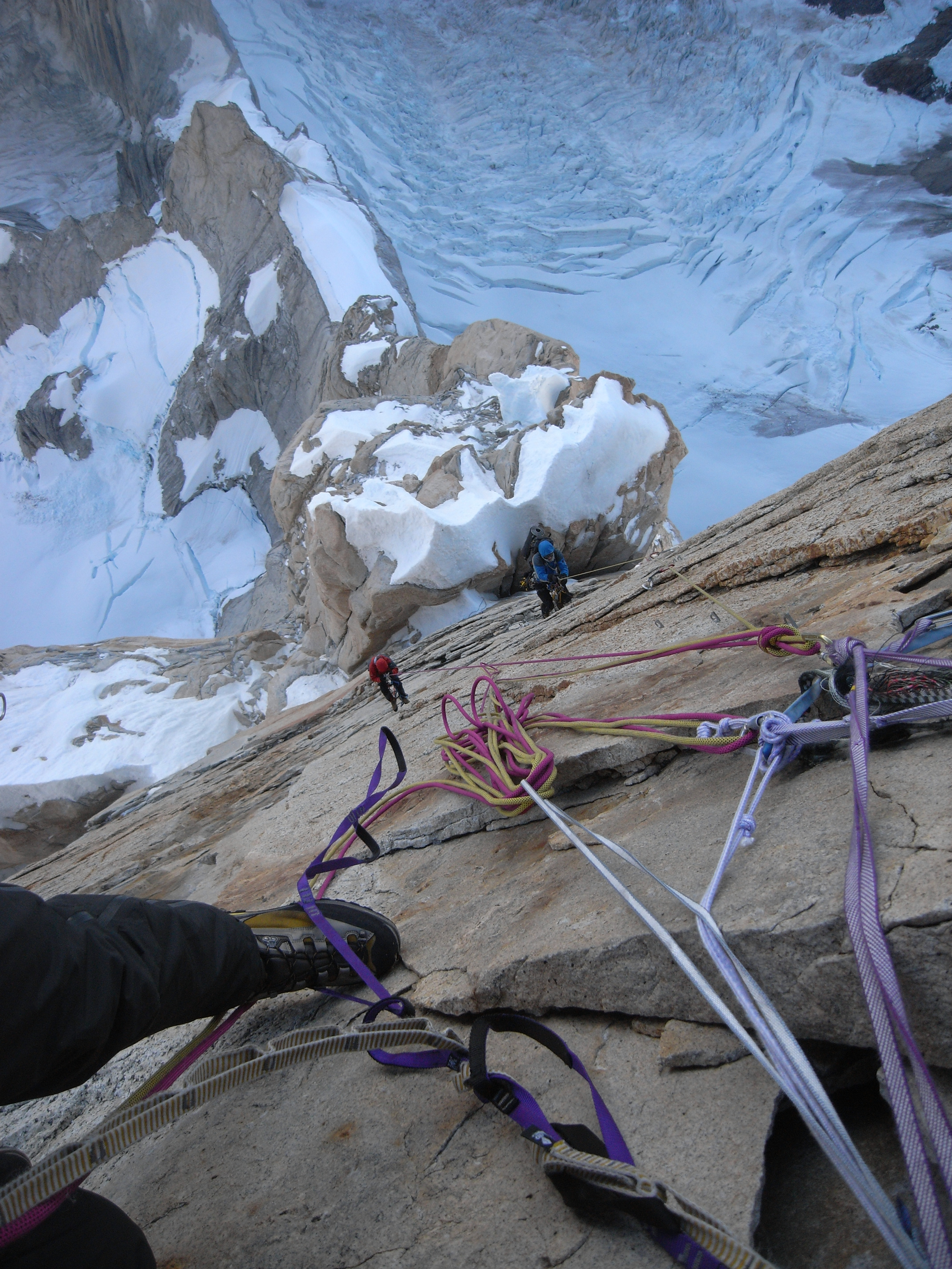 Cerro Torre headwall. Photo by: Kristoffer Szilas